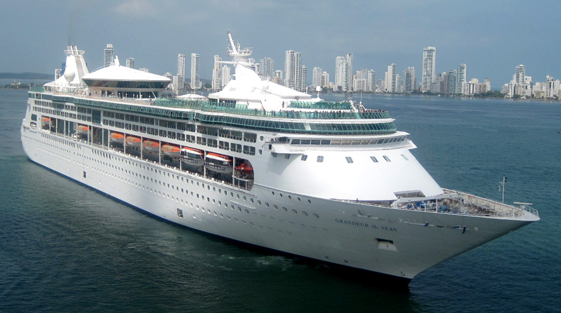 Grandeur of the Seas